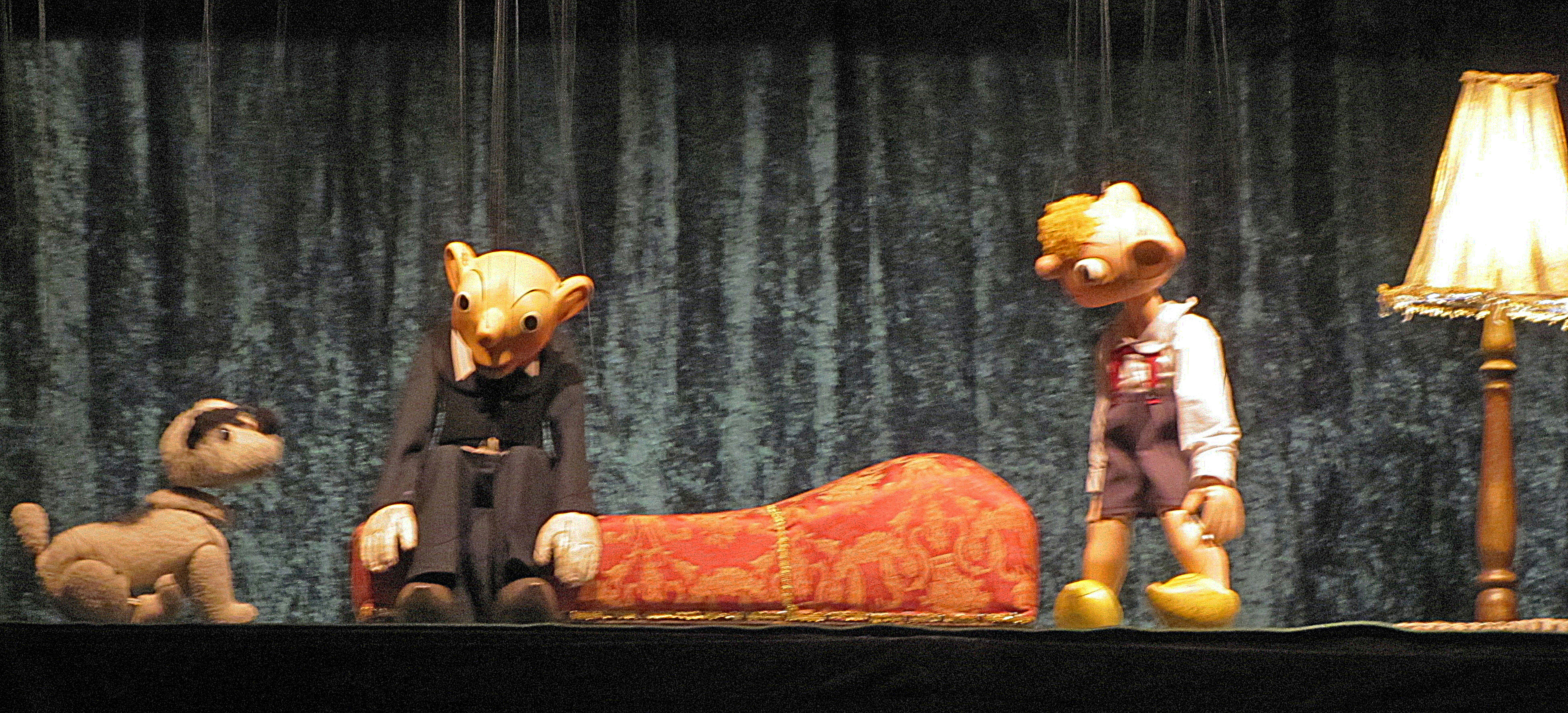 Spejbl and Hurvínek with dog "Žeryk", Czech puppet comedy duo, 2010 at Moerfelden-Walldorf, Hesse, Germany.